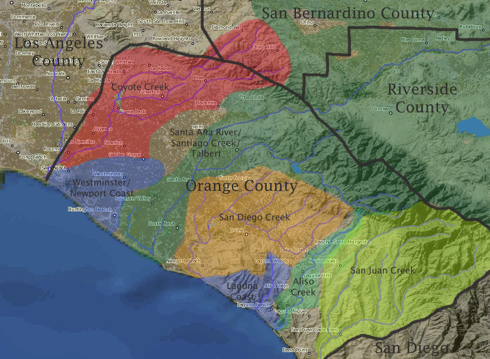 Orange County watersheds map for use in corresponding article